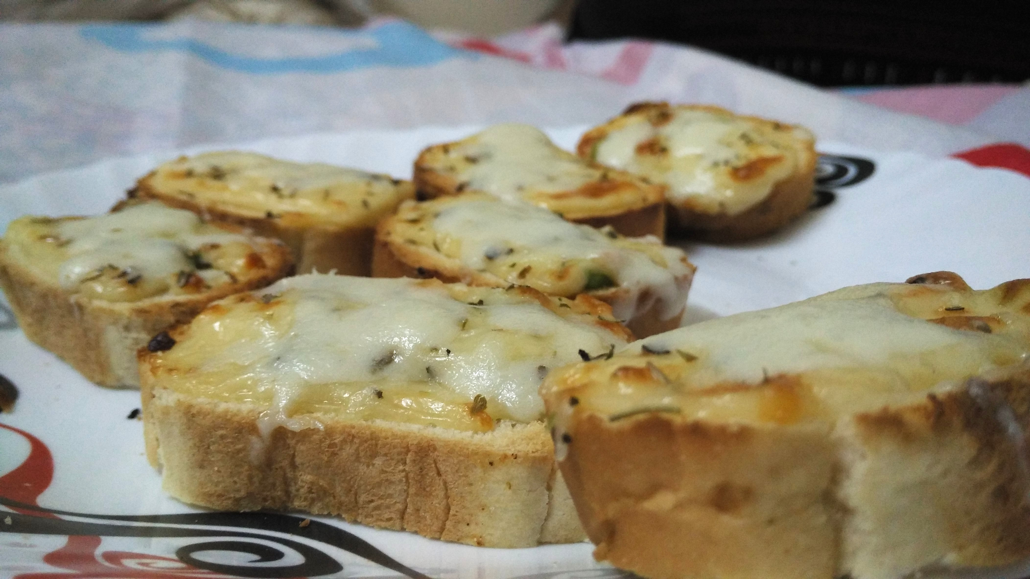 This was prepared by an amazing talented chef going by the name Suresh.